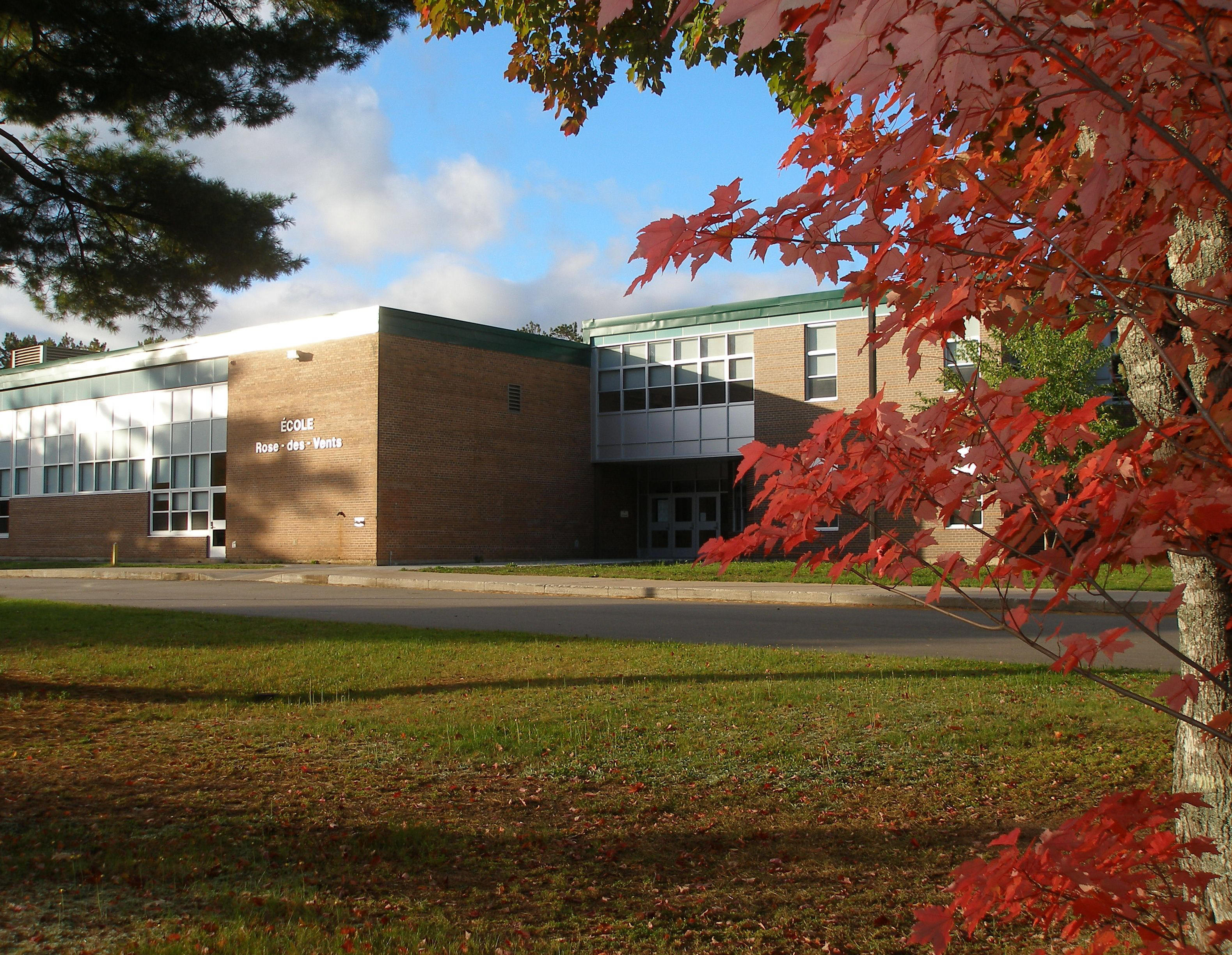 École RDV